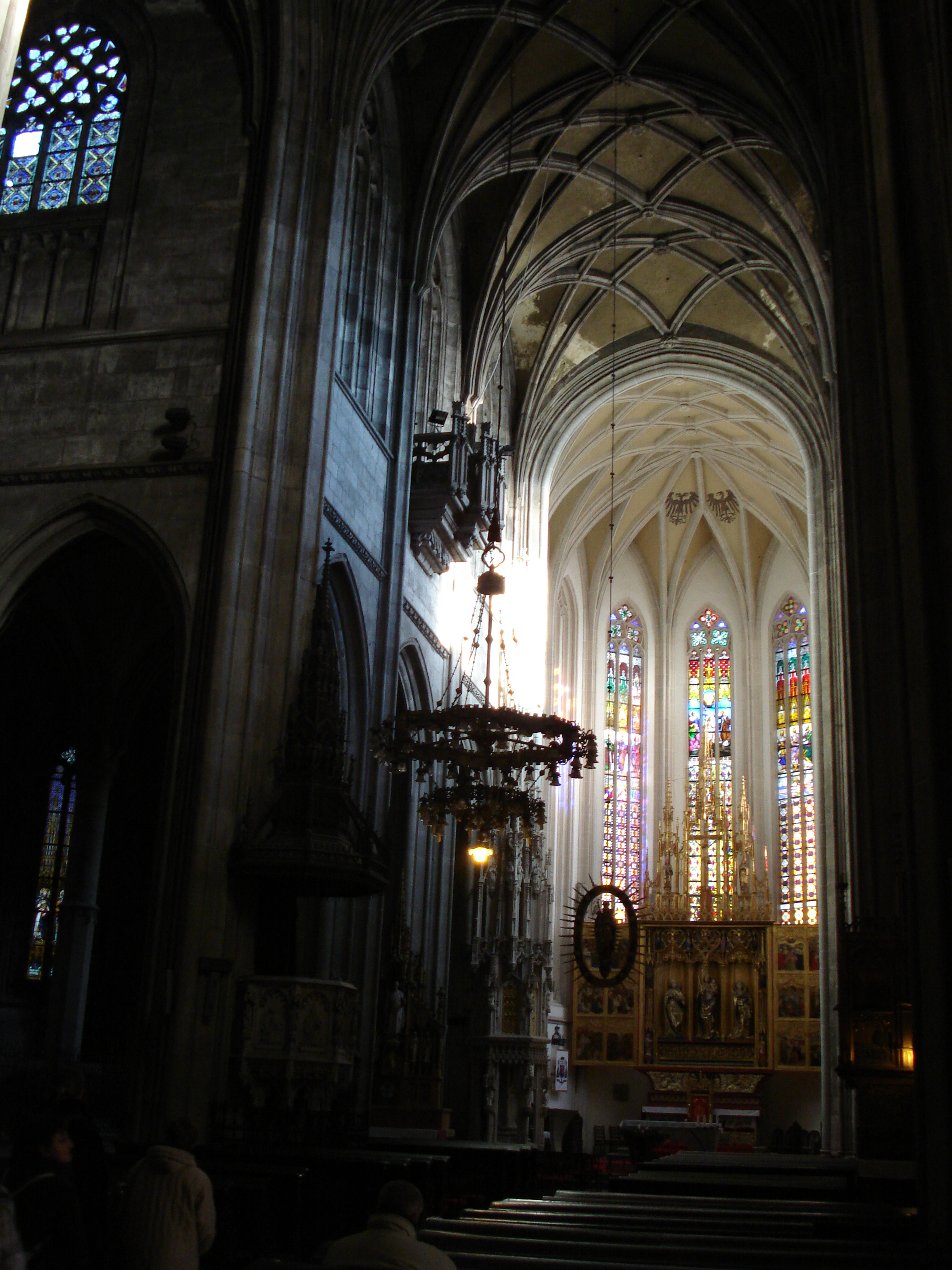 St. Elisabeth Cathedral